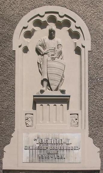 Relief up to the monument in the former Siegesallee in Berlin commemorating to the co-ruler, margrave of Brandenburg Johann II (ca 1237–1281), son of margrave Johann I. Sculptor of the monument: Reinhold Felderhoff, inaugurated 1900. The relief is located at the house on the corner Markgrafenstraße/Mariendorfer Damm and was placed in 1909. It’s creator is unknown.